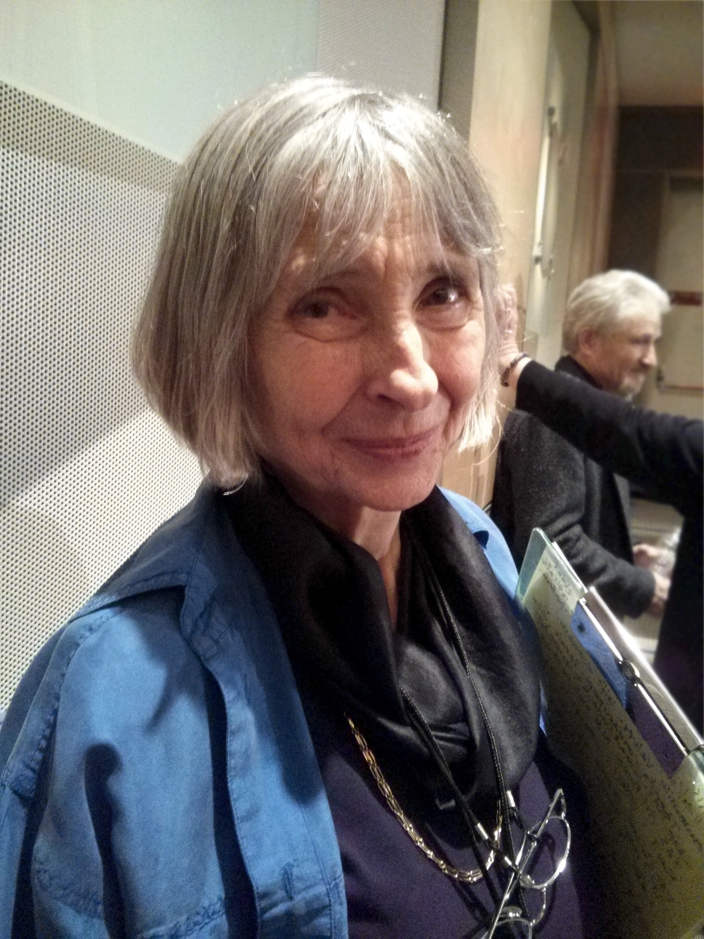 Mail artist Anna Banana at the Ex Postal Facto conference in San Francisco, February 2014